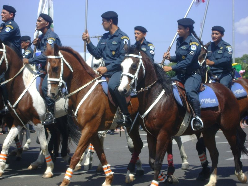 Civic parade on the Independence, in September 2010.